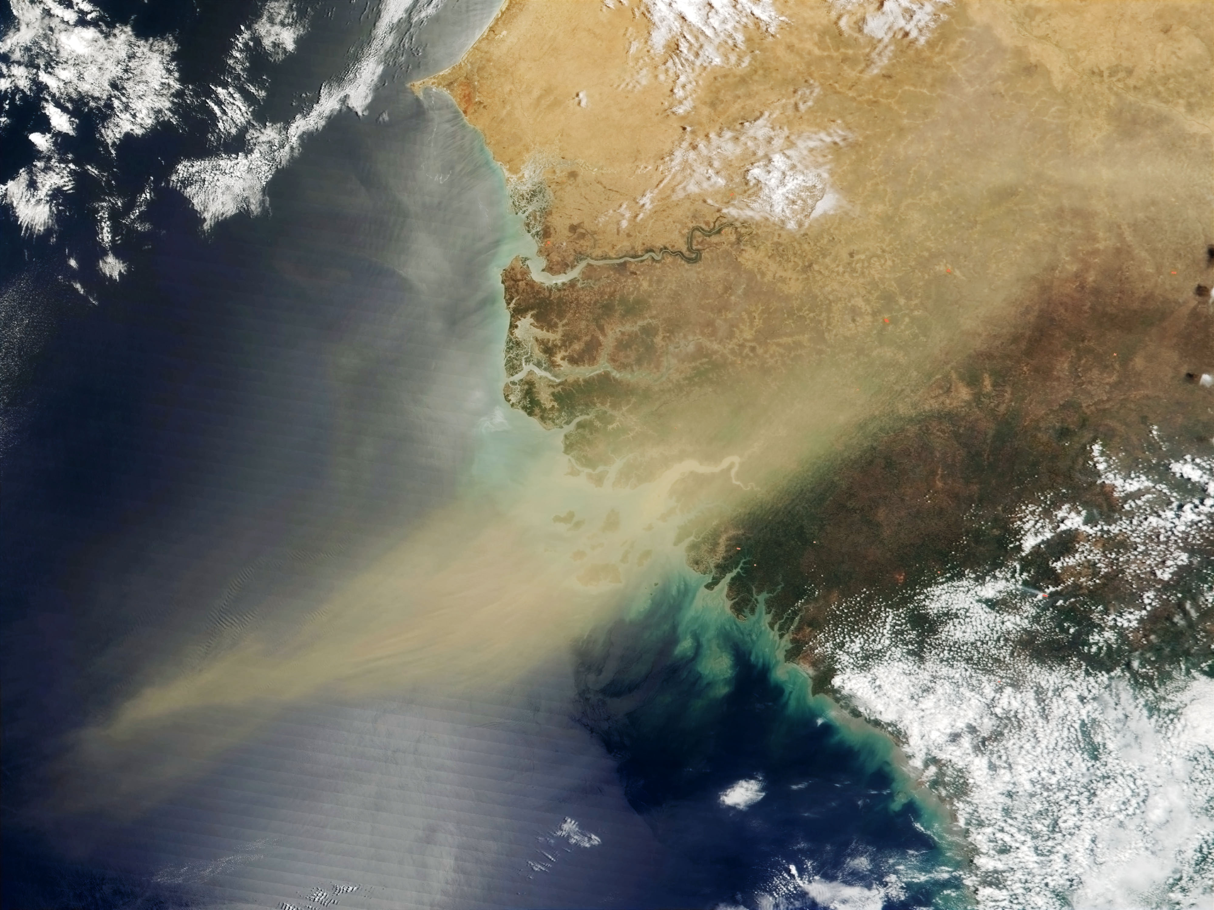 Dust plume off the west coast of Africa